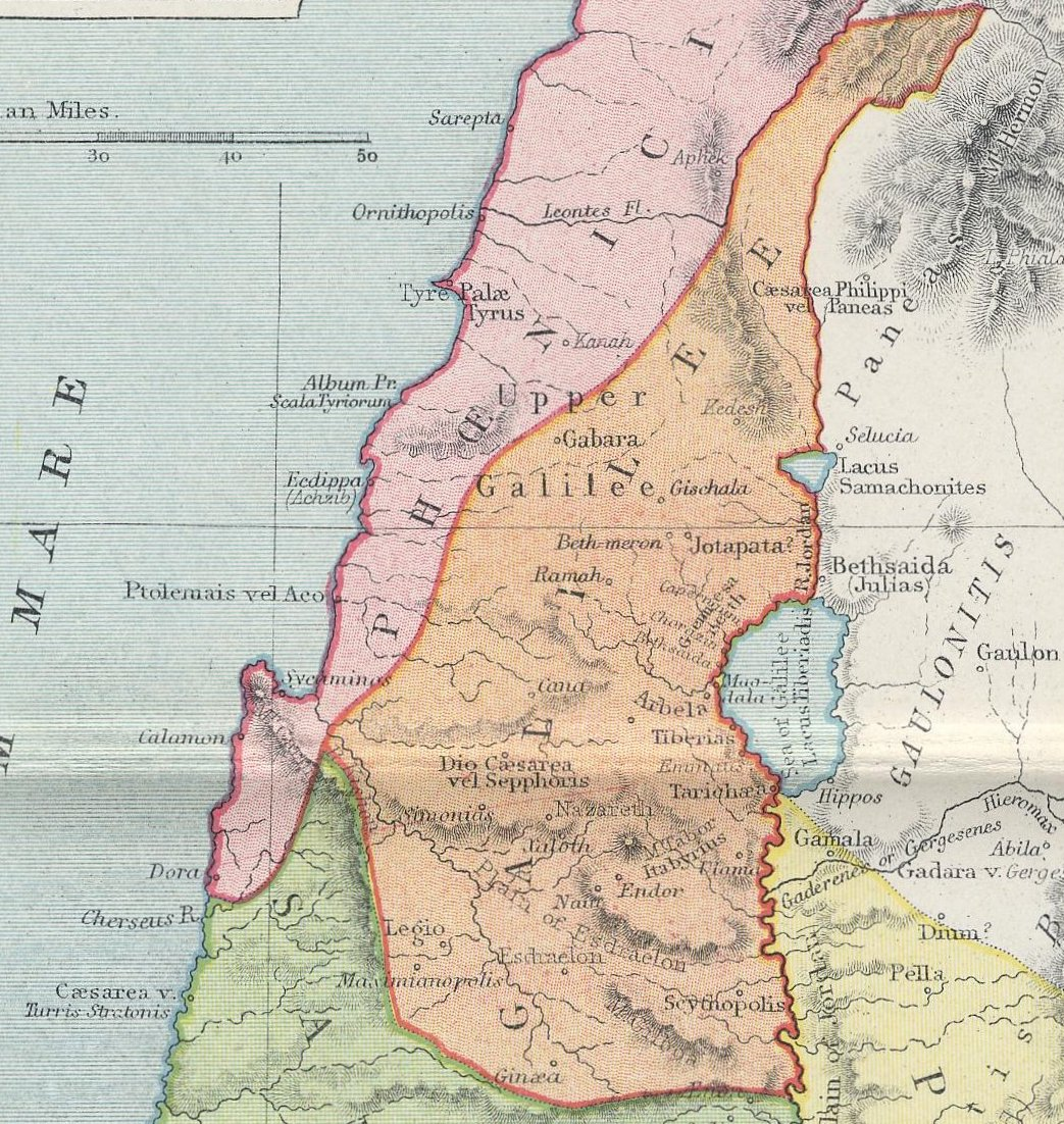 The Atlas of Ancient and Classical Geography by Samuel Butler